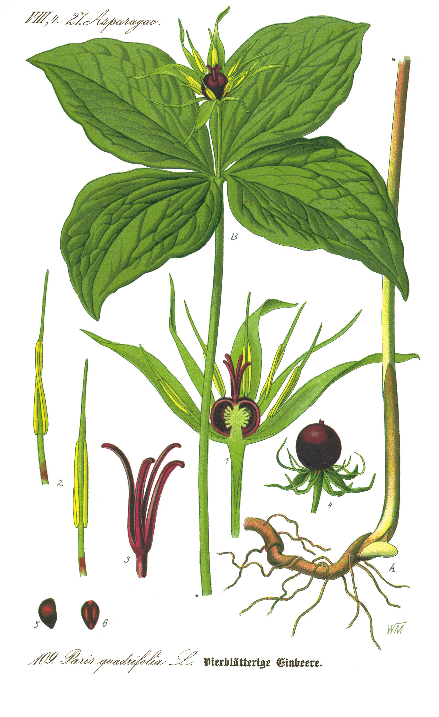 clean-up version by Frédéric 19:26, 9 March 2008 (UTC) Name Paris quadrifolia Family Trilliaceae Original book source: Prof. Dr. Otto Wilhelm Thomé Flora von Deutschland, Österreich und der Schweiz 1885, Gera, Germany